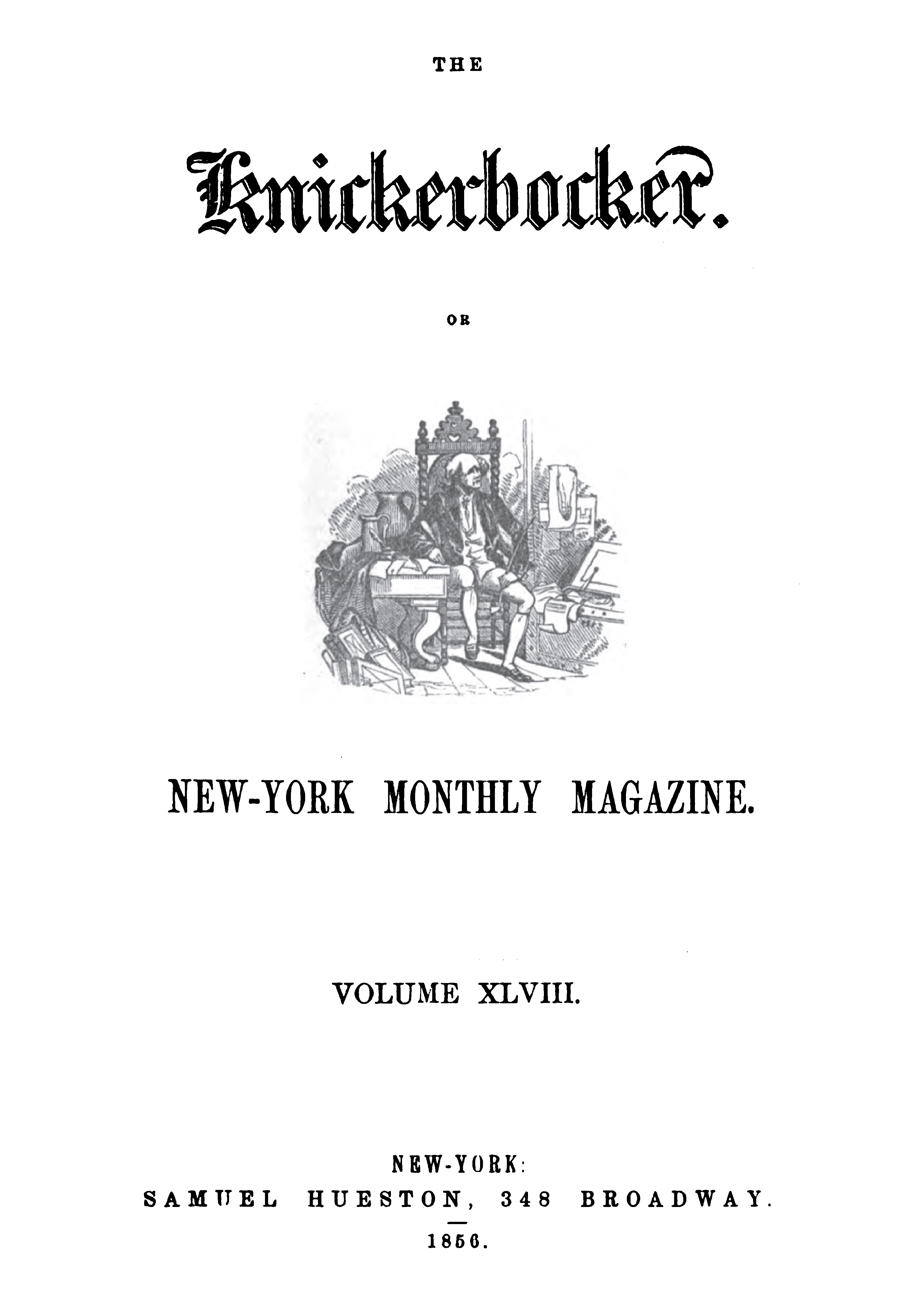 The cover of volume XLVIII of Knickerbocker or New York Monthly Magazine